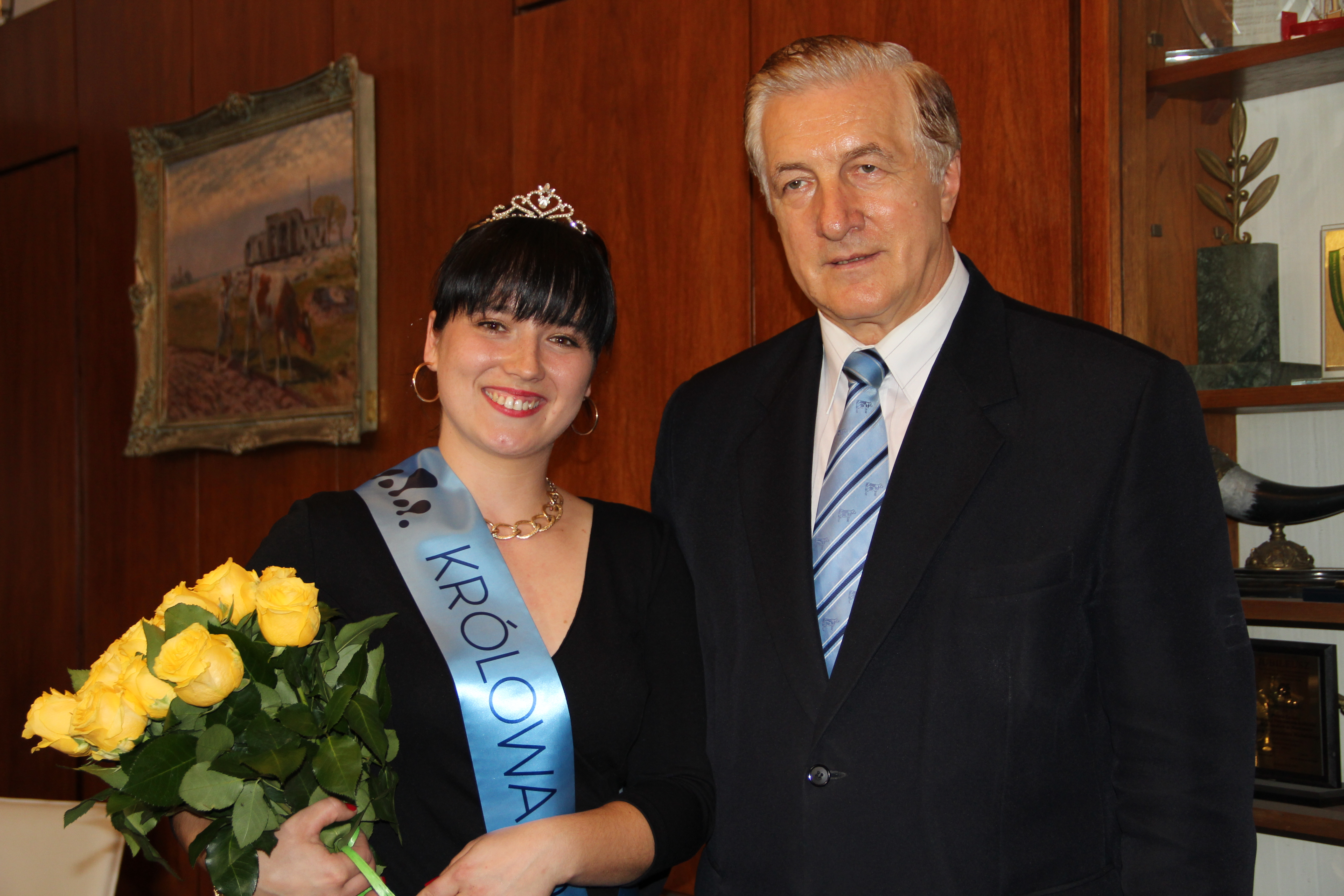 Królowa Mleka 2014 (Katarzyna Gajownik) and Waldemar Broś - Chairman KZSM Zw. Rew. (Polish Dairy Cooperation Federation)